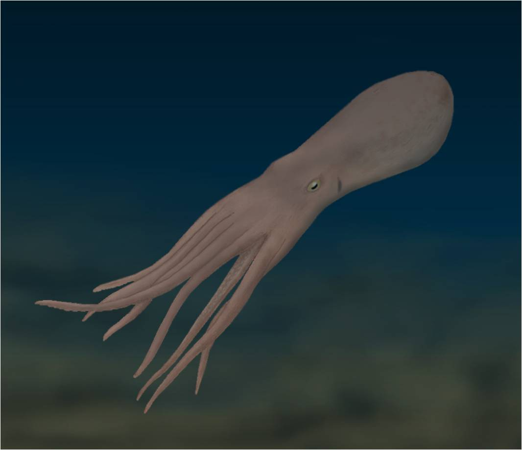 Life restoration of Keuppia levante. Based on photograph and restoration found here.